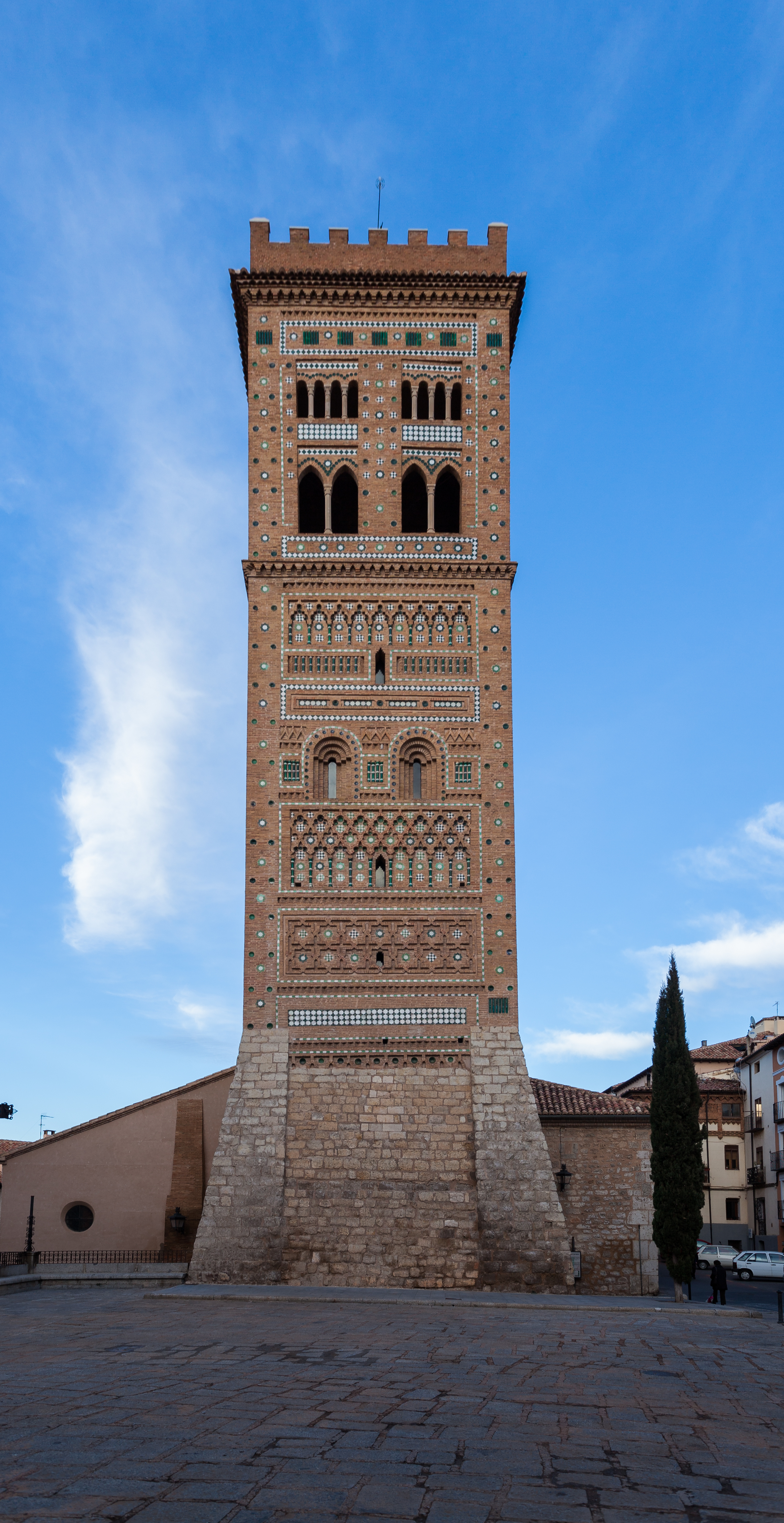 Church of San Martín, Teruel, Spain